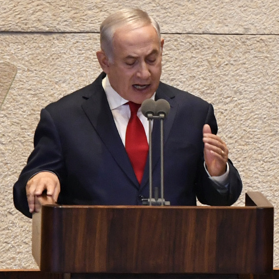 Vice President of the United States Mike Pence visits the Knesset and delivers remarks in front of a special parliamentary session, Jerusalem January 22, 2018. Vice President of the United States Mike Pence visits the Knesset and delivers remarks in front of a special parliamentary session, Jerusalem January 22, 2018.